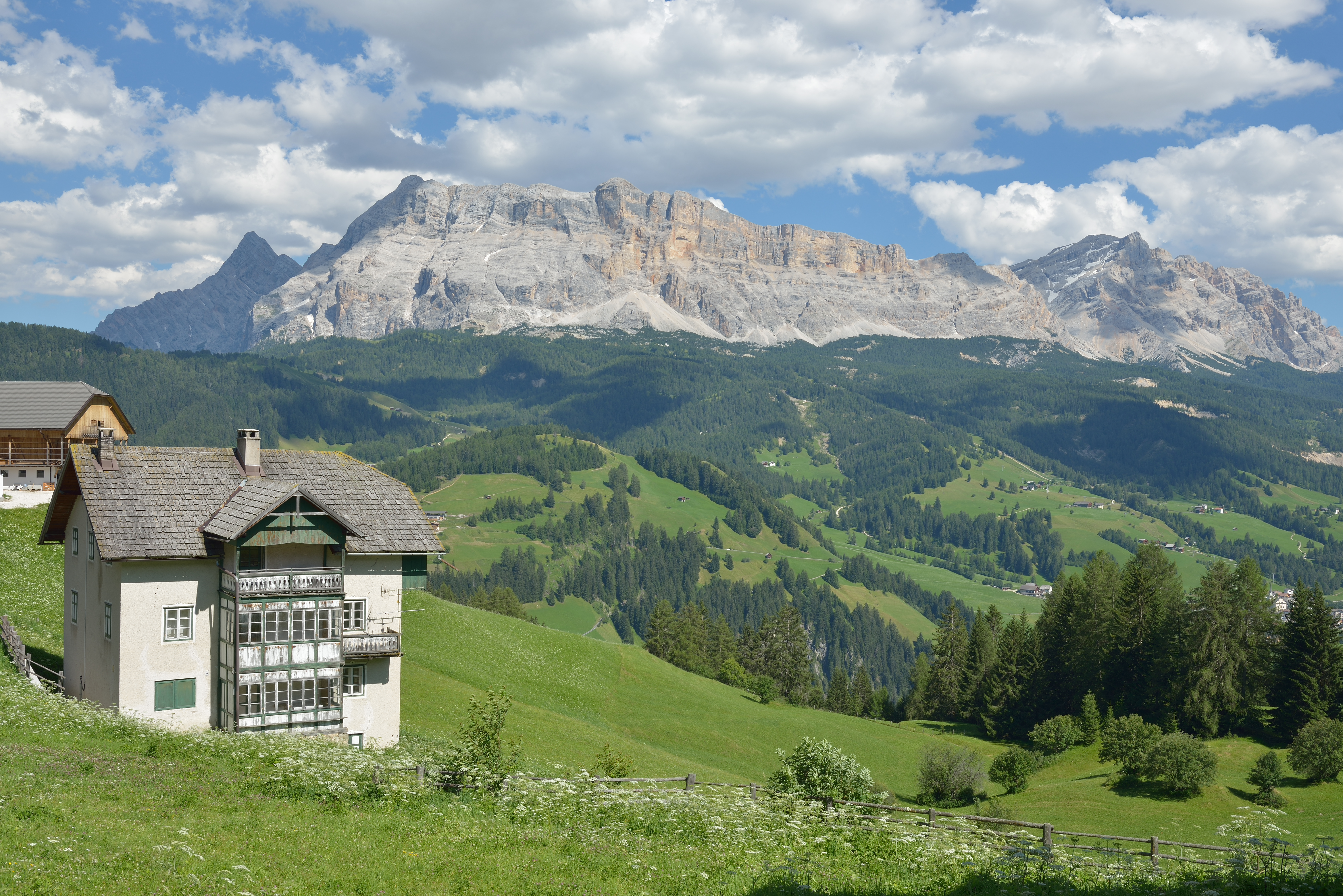 View of Sas dles Nü, Sas dles Diesc, Sas dla Crusc and Lavarela from Pescol in Pedraces (South Tyrol)